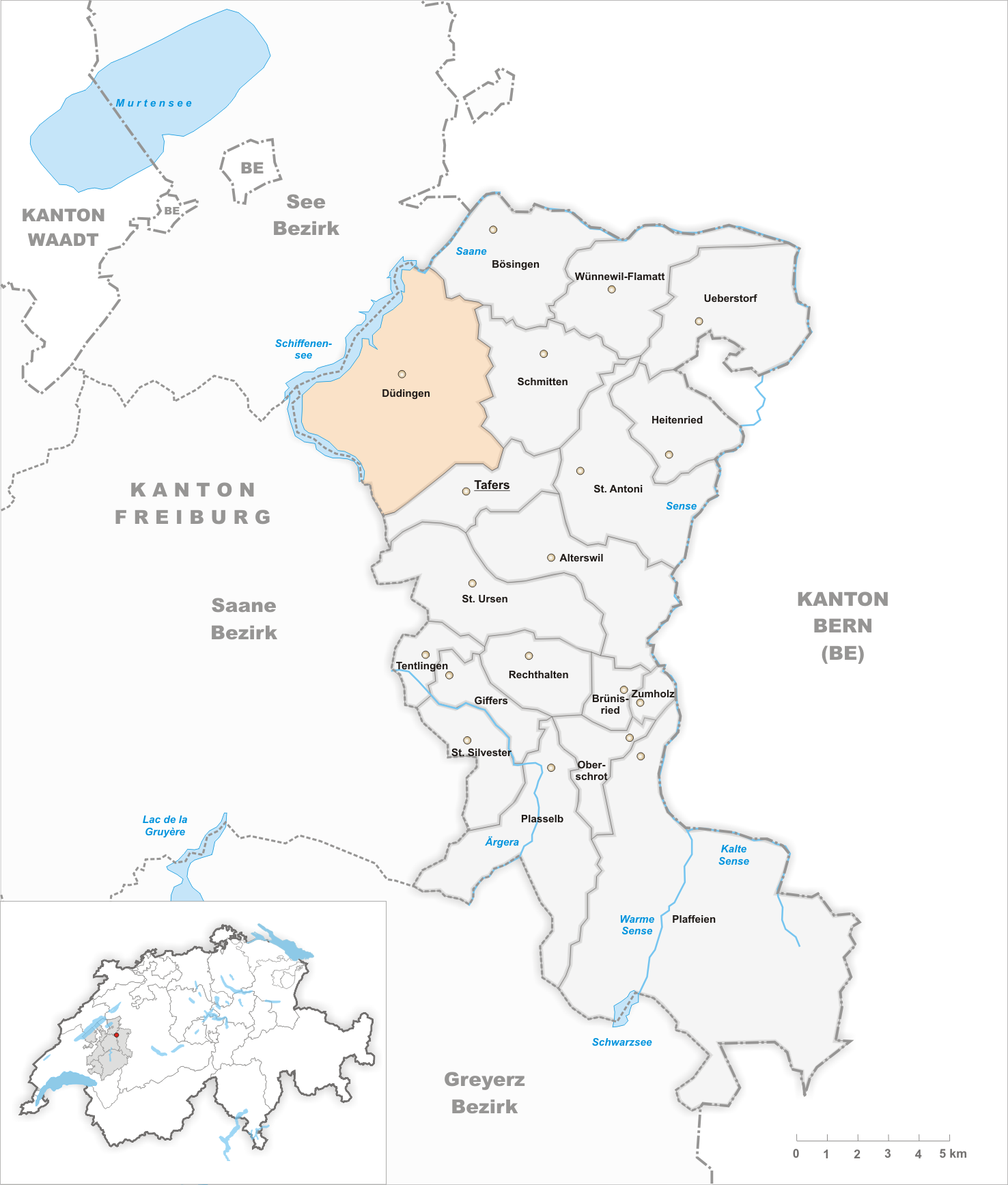 Municipality Düdingen